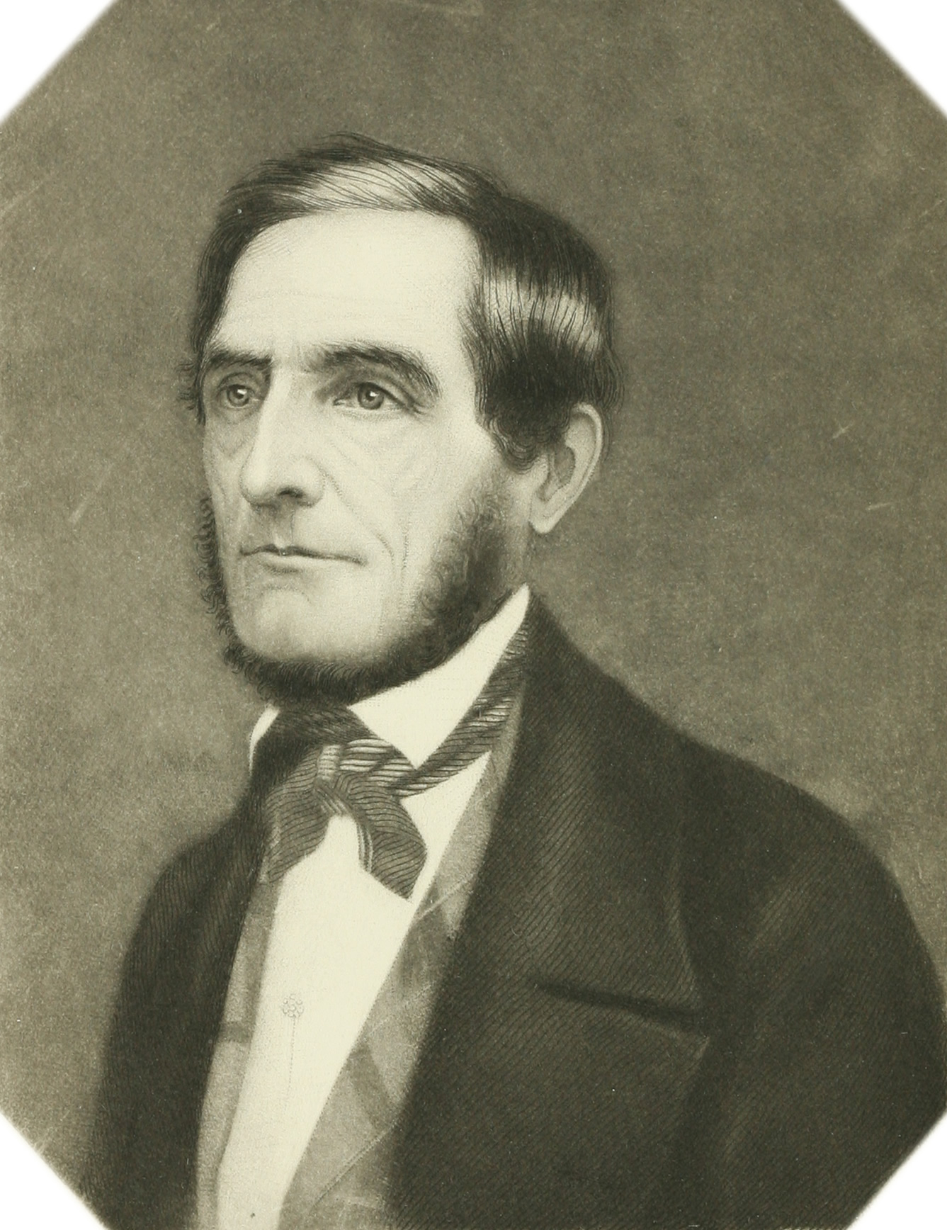 Portrait of Zadock Pratt (also spelled Zadoc). Congressman from New York. Extracted from Biography of Zadock Pratt, of Prattsville, N. Y, digitized at No notice of copyright, estimated publication date of 1852, as the chronology stops there, despite Pratt living to 1871.